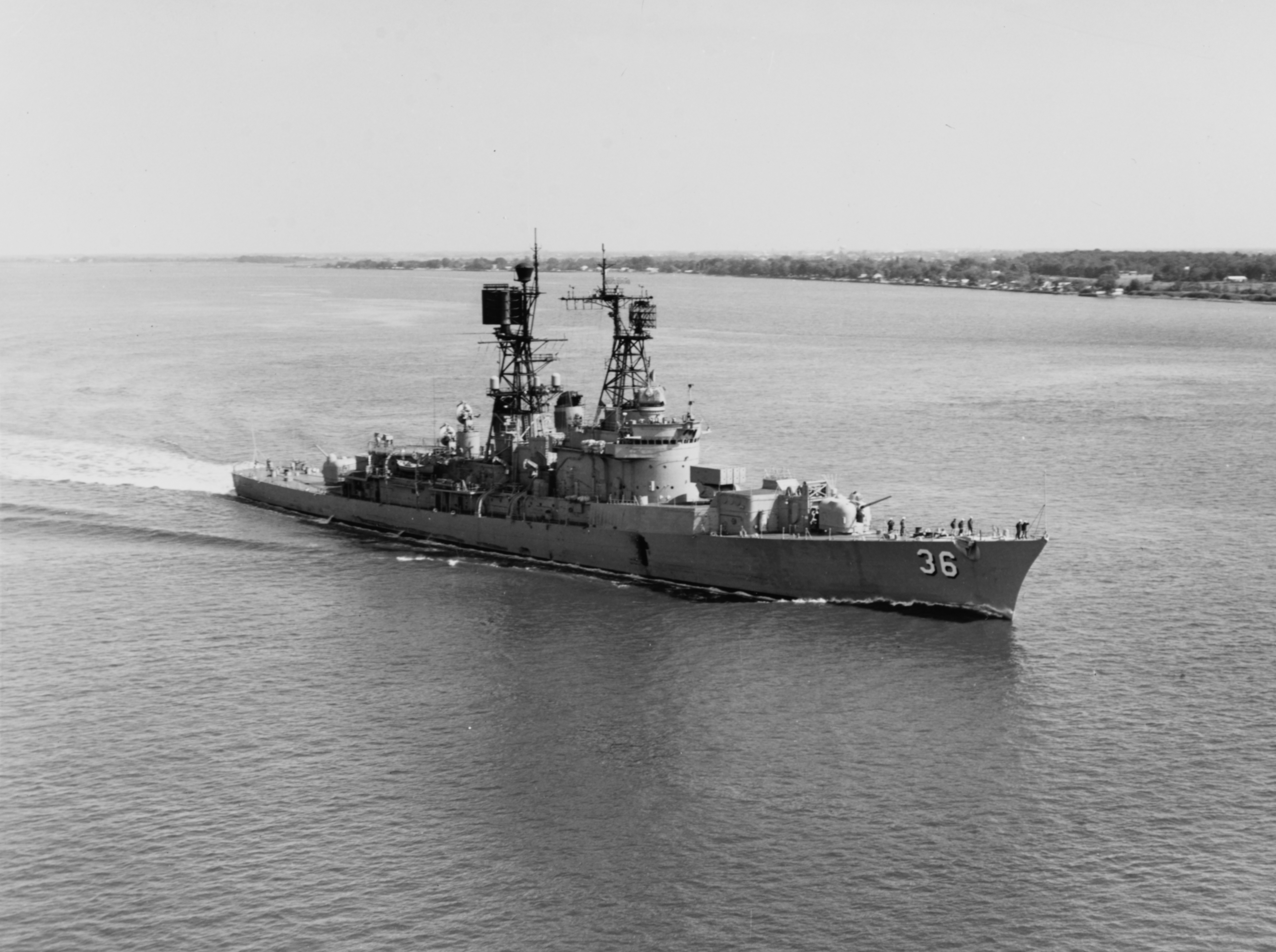 The U.S. Navy guided missile destroyer USS John S. McCain (DDG-36) in the Delaware River (USA) on 30 September 1969. On 24 June 1966, John S. McCain had been decommissioned and entered the Philadelphia Naval Shipyard for conversion to a guided missile destroyer. She was recommissioned on 6 September 1969 and redesignated DDG-36 (from DL-3).